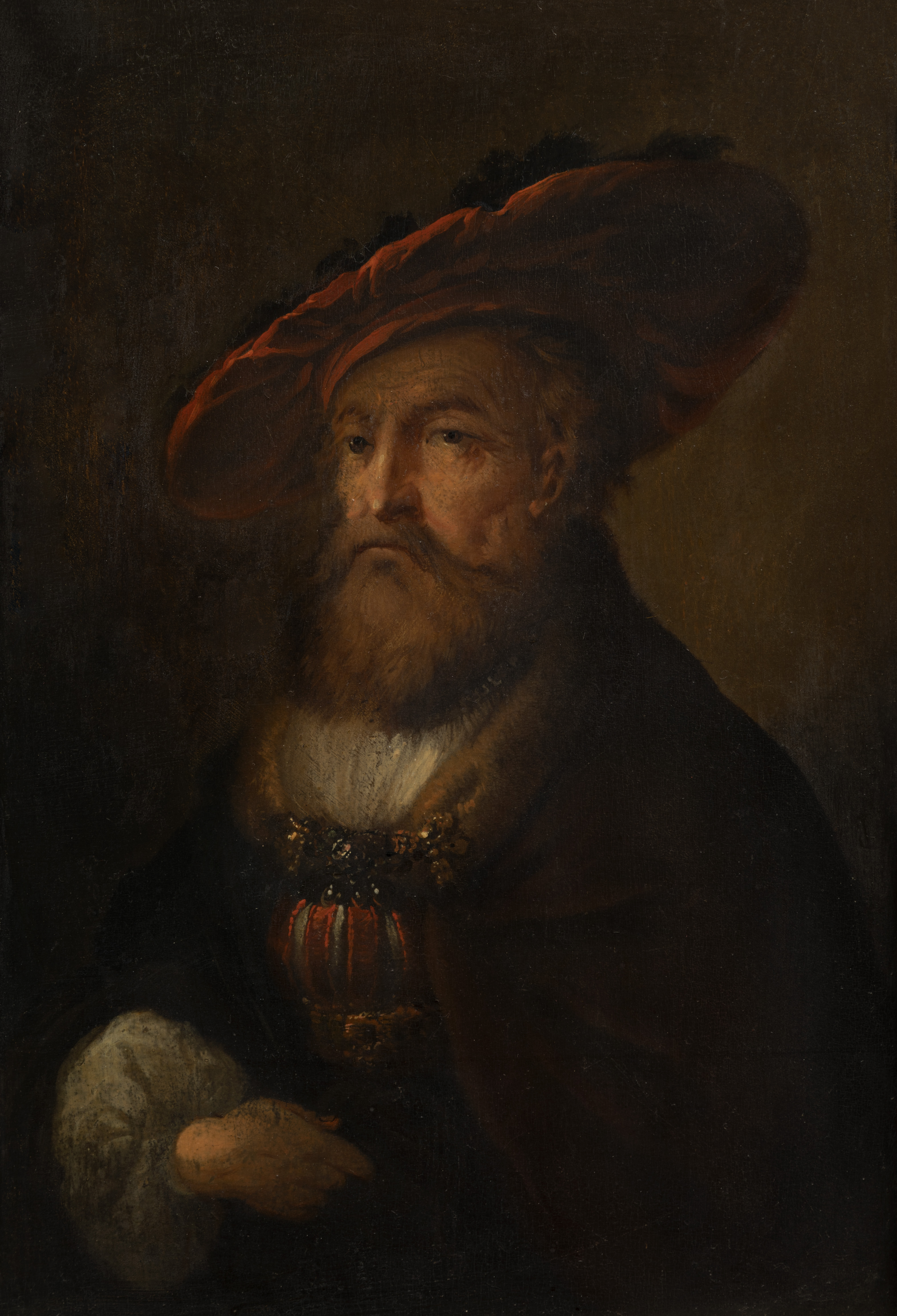 portrait